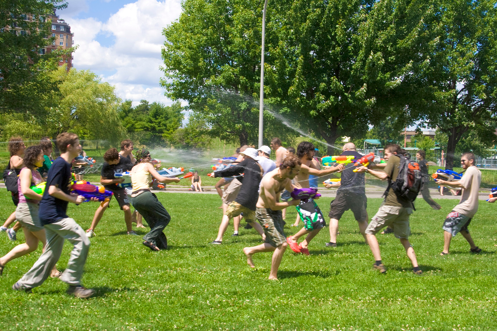 Water Battle in Parc Angrignon, Montreal (Canada), in July 2007.